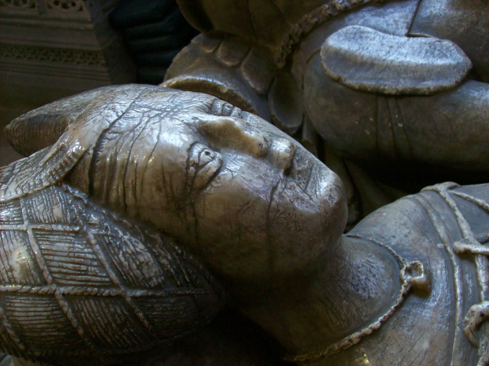 Effigy of Margaret Cockayne (mid 15th c.) St. Oswald, Ashbourne